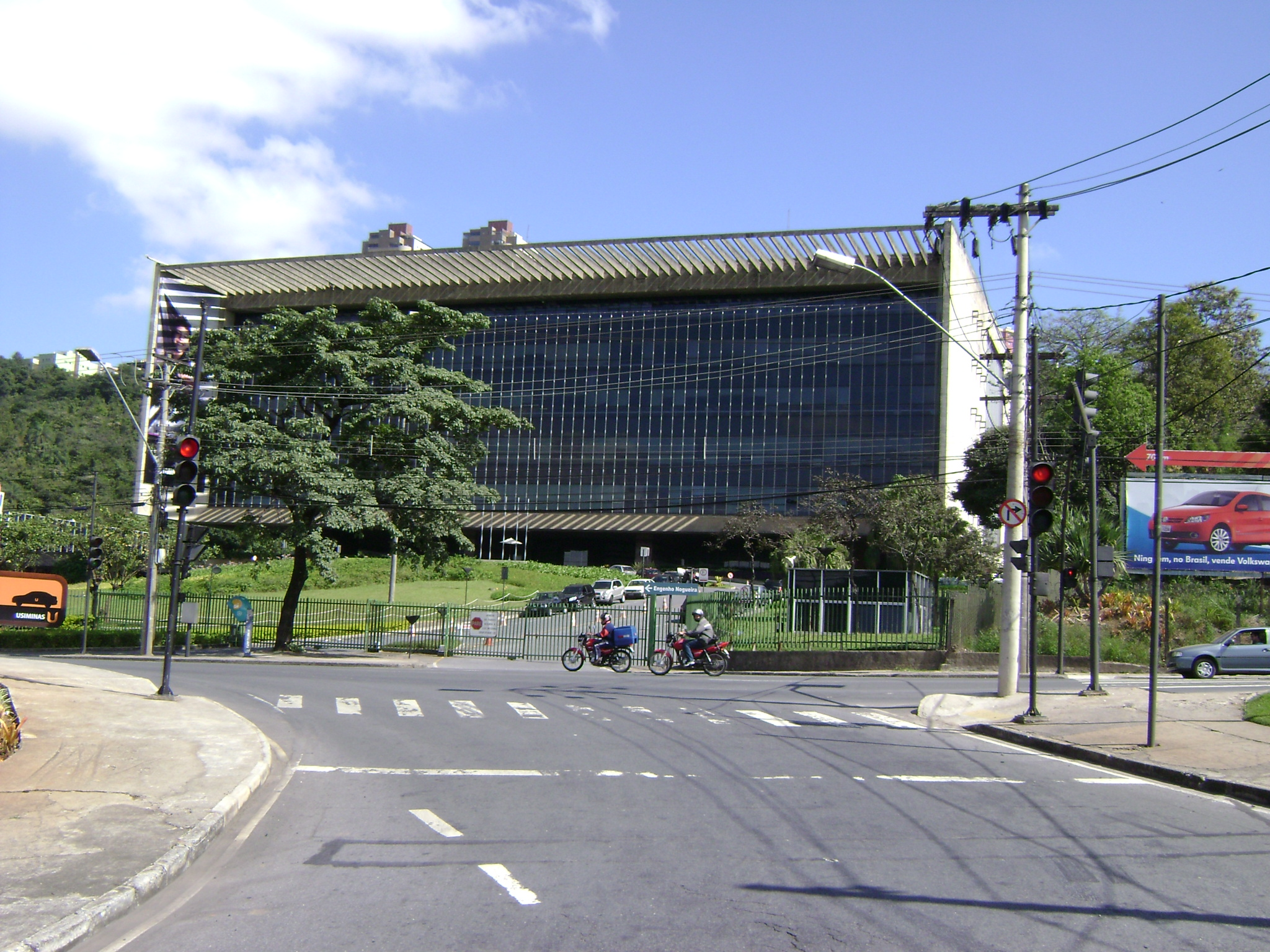 Usiminas headquarters in Belo Horizonte